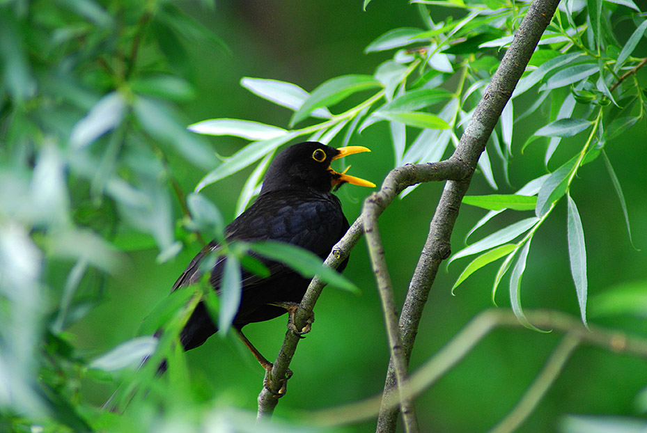 Blackbird, Common Blackbird or Eurasian Blackbird (Turdus merula) singing.